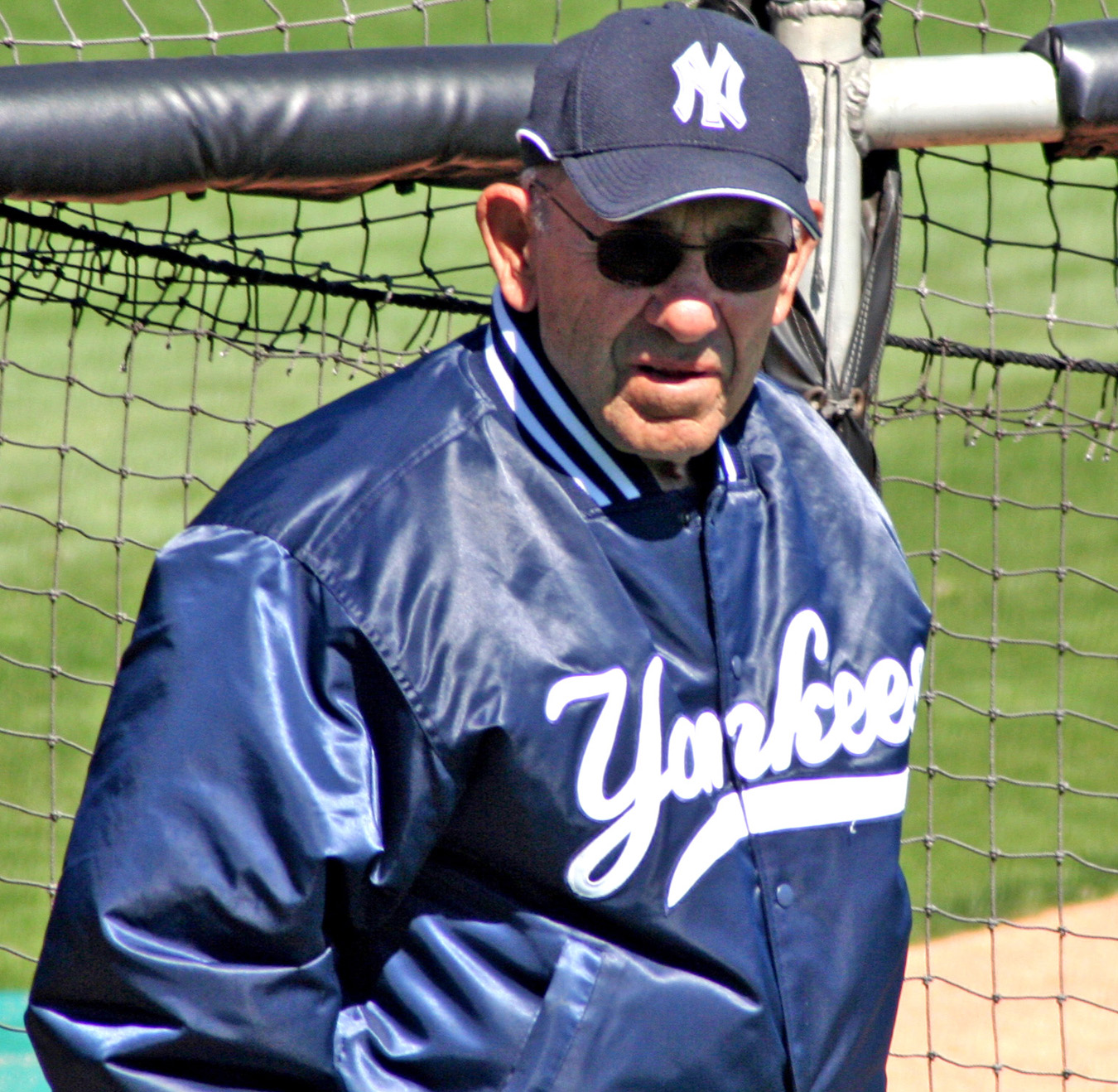 Photograph of Yogi Berra taken by Googie Man